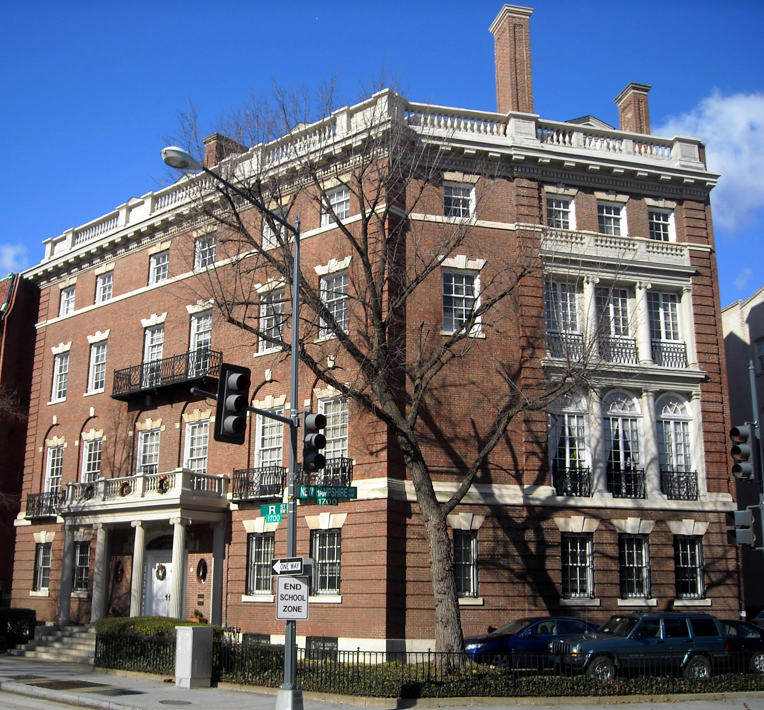 The former residence of Thomas Nelson Page, located at 1759 R Street, N.W., in the Dupont Circle neighborhood of Washington, D.C. The building currently serves as headquarters of the American Institute for Cancer Research. Designed by Stanford White in 1896, the building is an example of Georgian Revival and Colonial Revival architectural styles. The Thomas Nelson Page House was listed on the National Register of Historic Places in 1975. It is designated as a contributing property to the Dupont Circle Historic District, listed on the National Register of Historic Places in 1978.